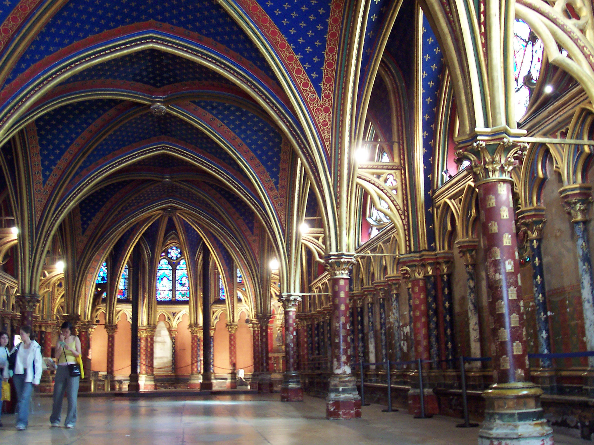 Sainte-Chapelle Lower Chapel